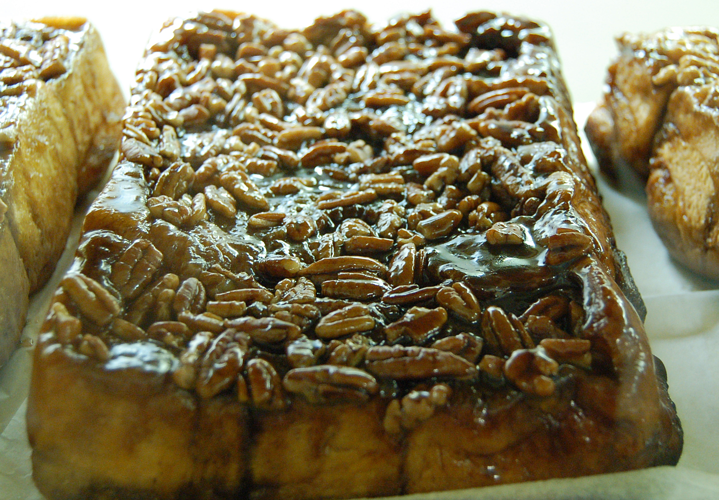 A photograph of a Sticky Bun loaf. Picture was taken at a local market in Delaware County, Pennsylvania.